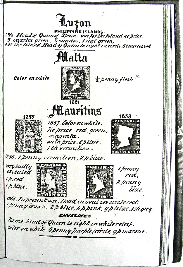 A scan of a page from a book by Frederick William Booty who died in 1924. The Mauritius page does not show the famous Mauritius "Post Office" stamps (Red Brown and Blue Mauritius stamps) issued in 1847.